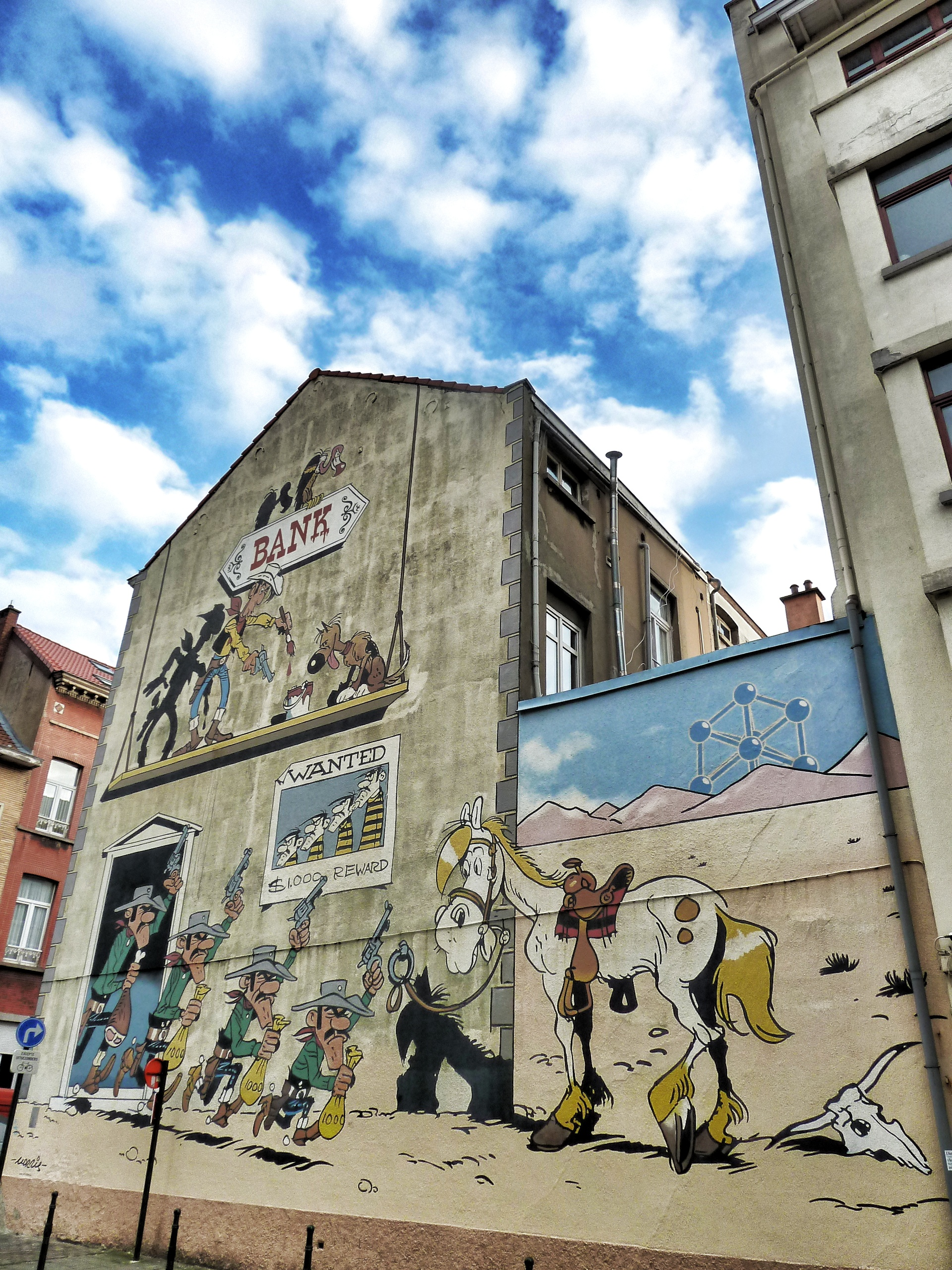 Lucky Luke